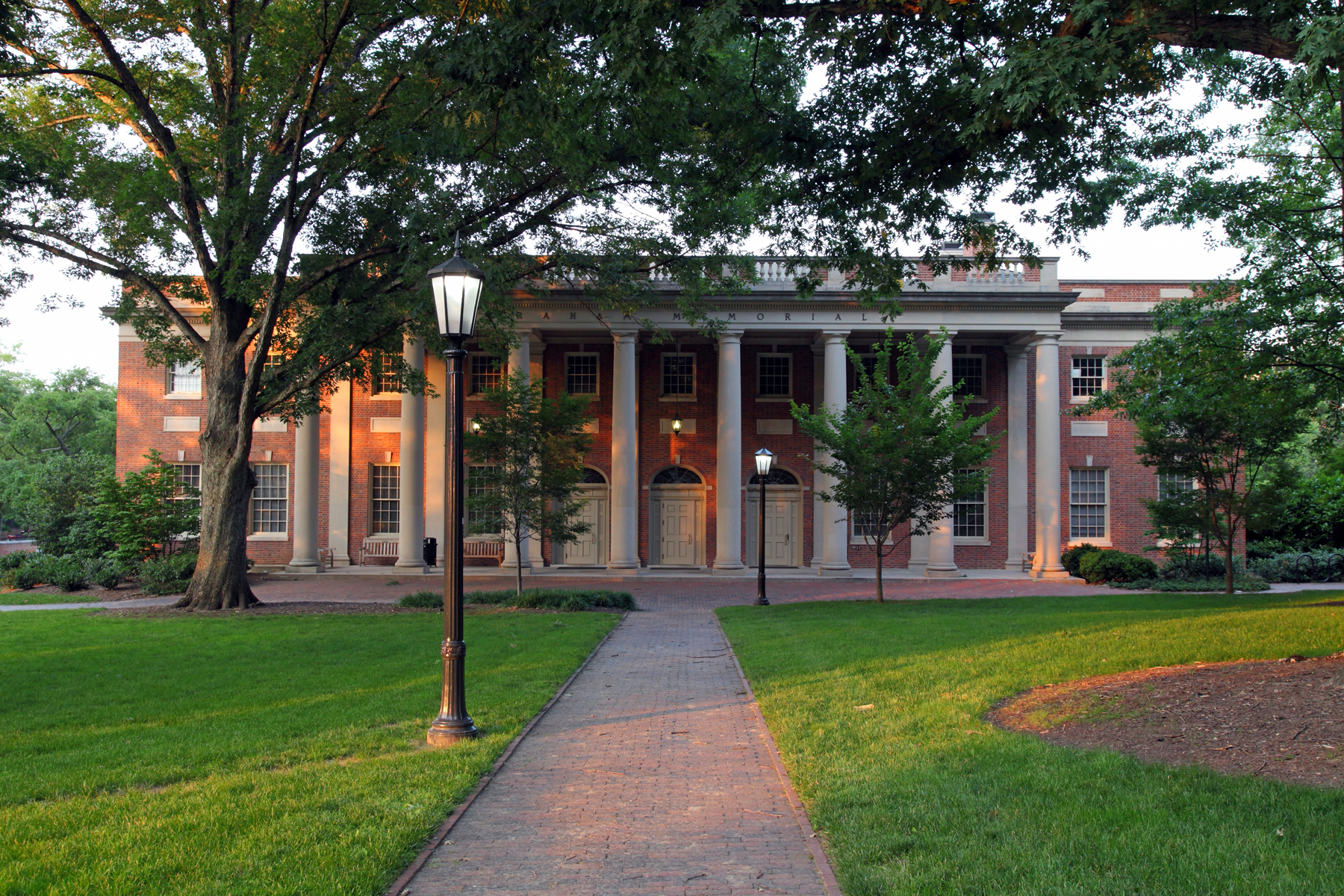 Graham Memorial at the University of North Carolina in Chapel Hill, North Carolina.